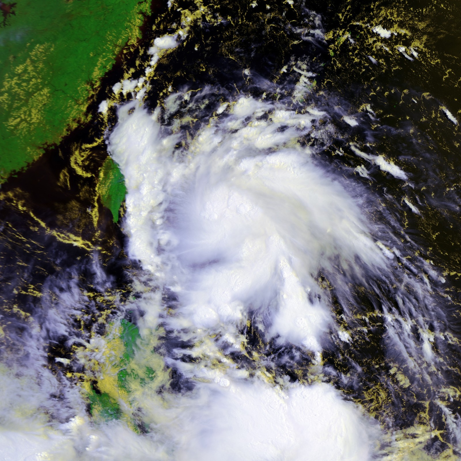 Tropical Storm Pabuk on August 7 at approximately 0107 UTC. This image was produced from data from MetOp-2/A, provided by NOAA.